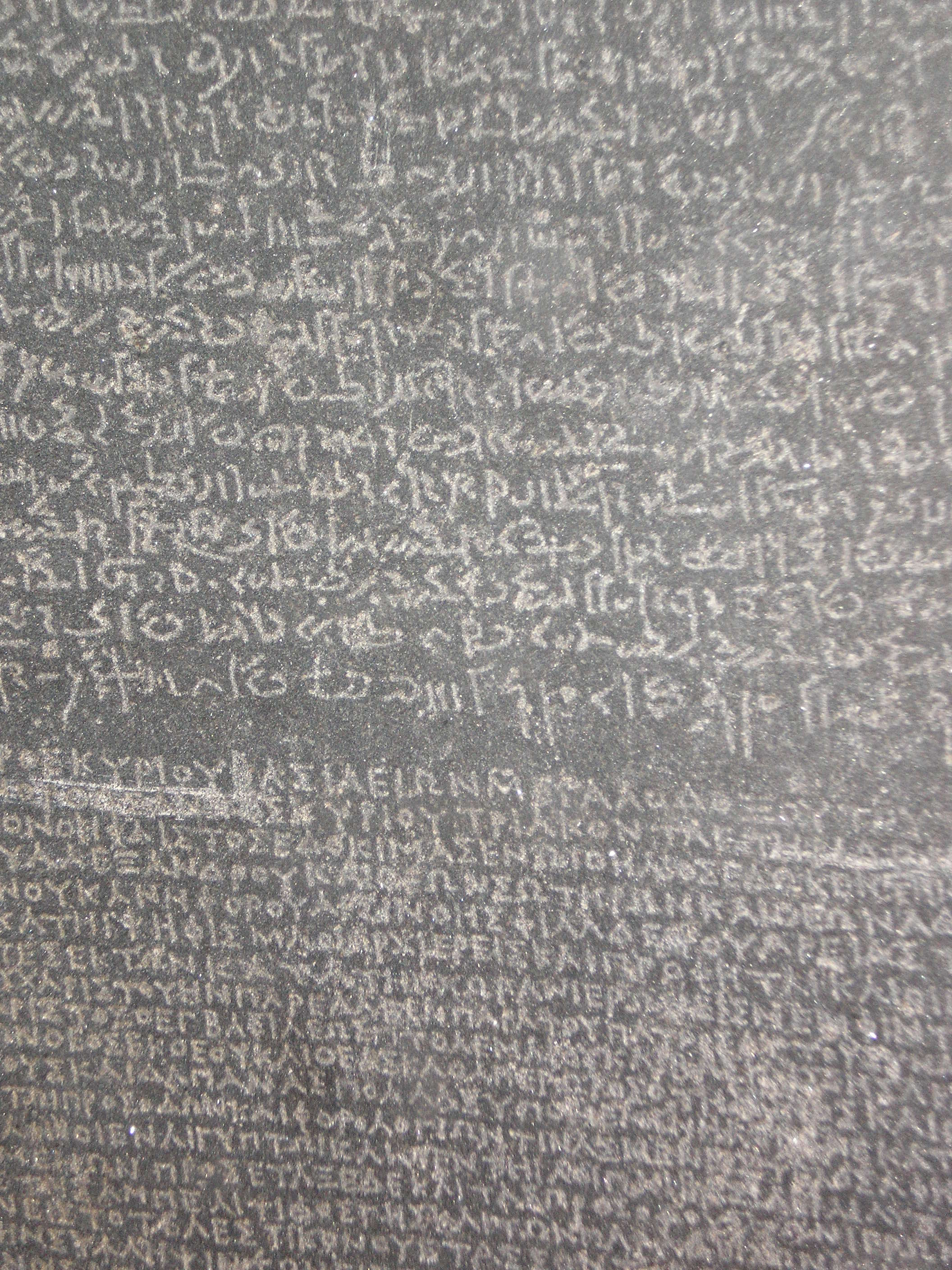 Rosetta Stone close up.